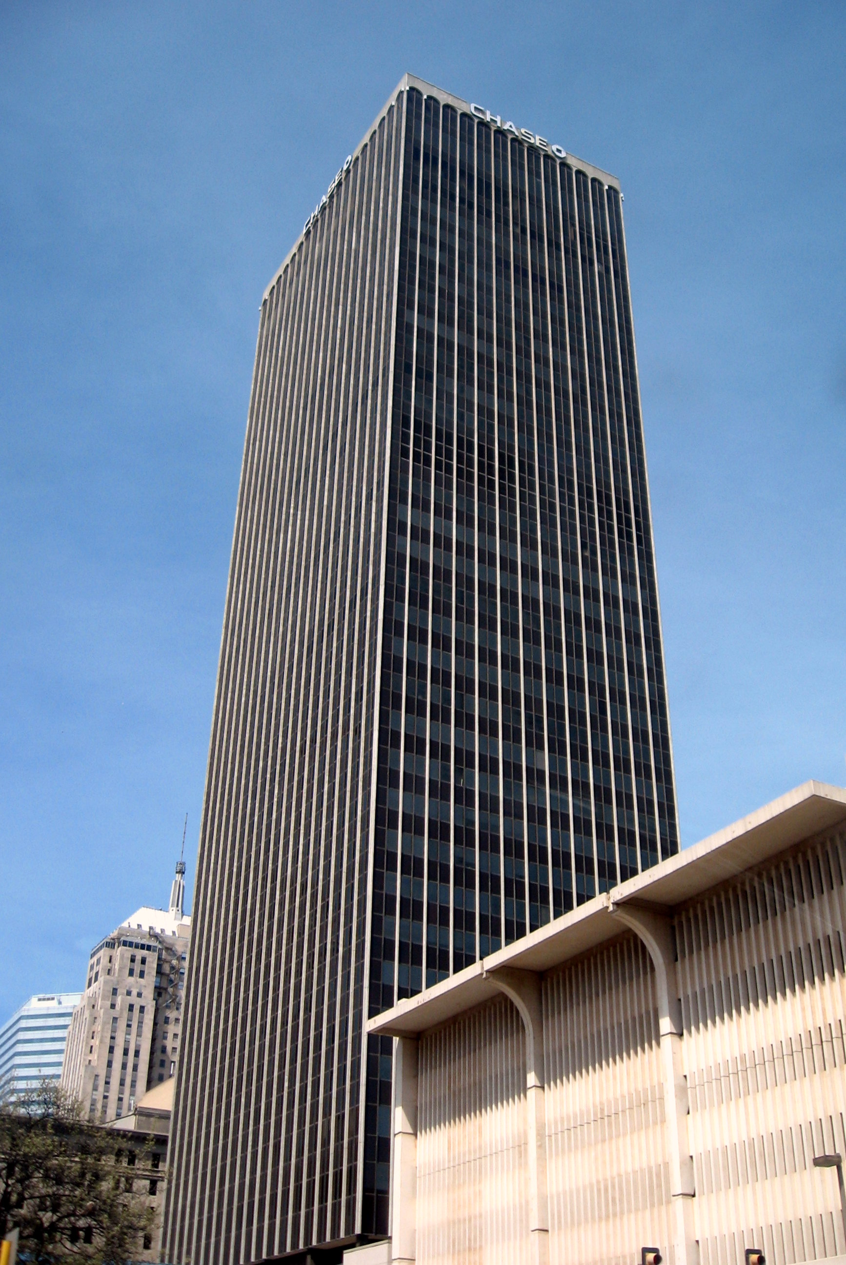 Looking up Chase Tower in downtown Oklahoma City.